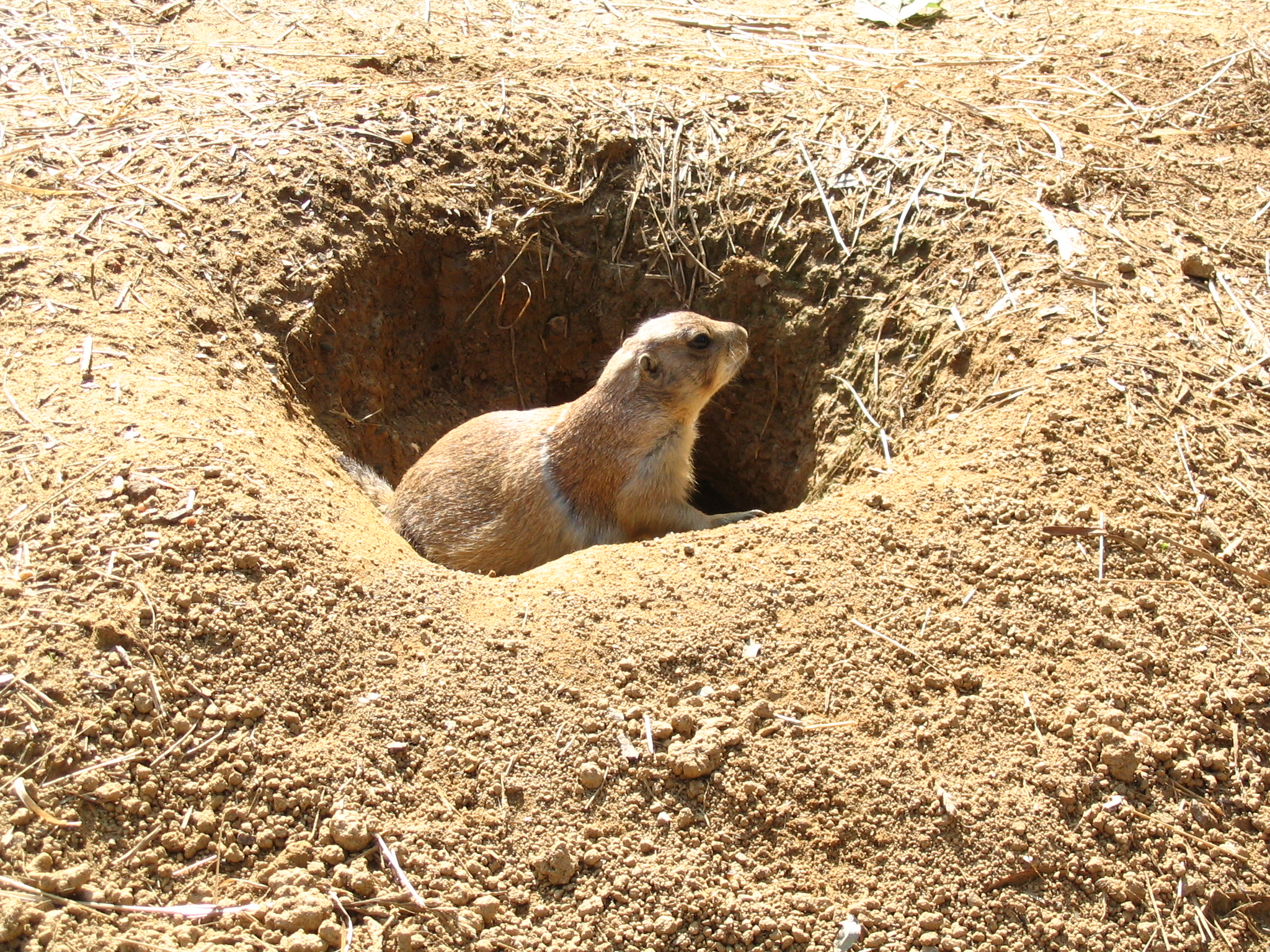 A picture of a male Black-tailed Prairie Dog at the National Zoo.